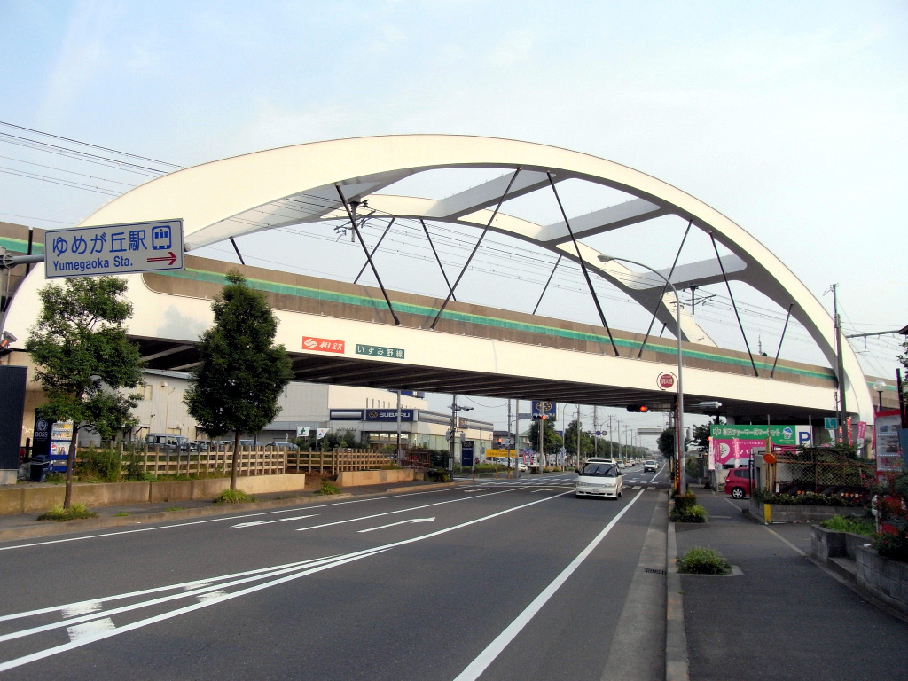 Nielsen bridge near Yumegaoka station of Sagami railway in YokohamaRicoh R10